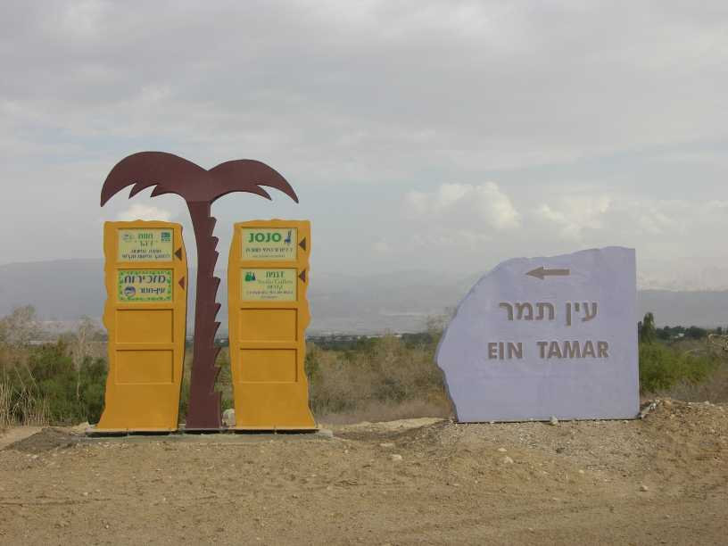 Ein Tamar